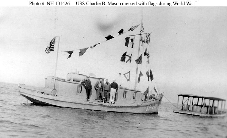 United States Navy patrol vessel , sometimes referred to as Charles B. Mason, dressed with flags during World War I.